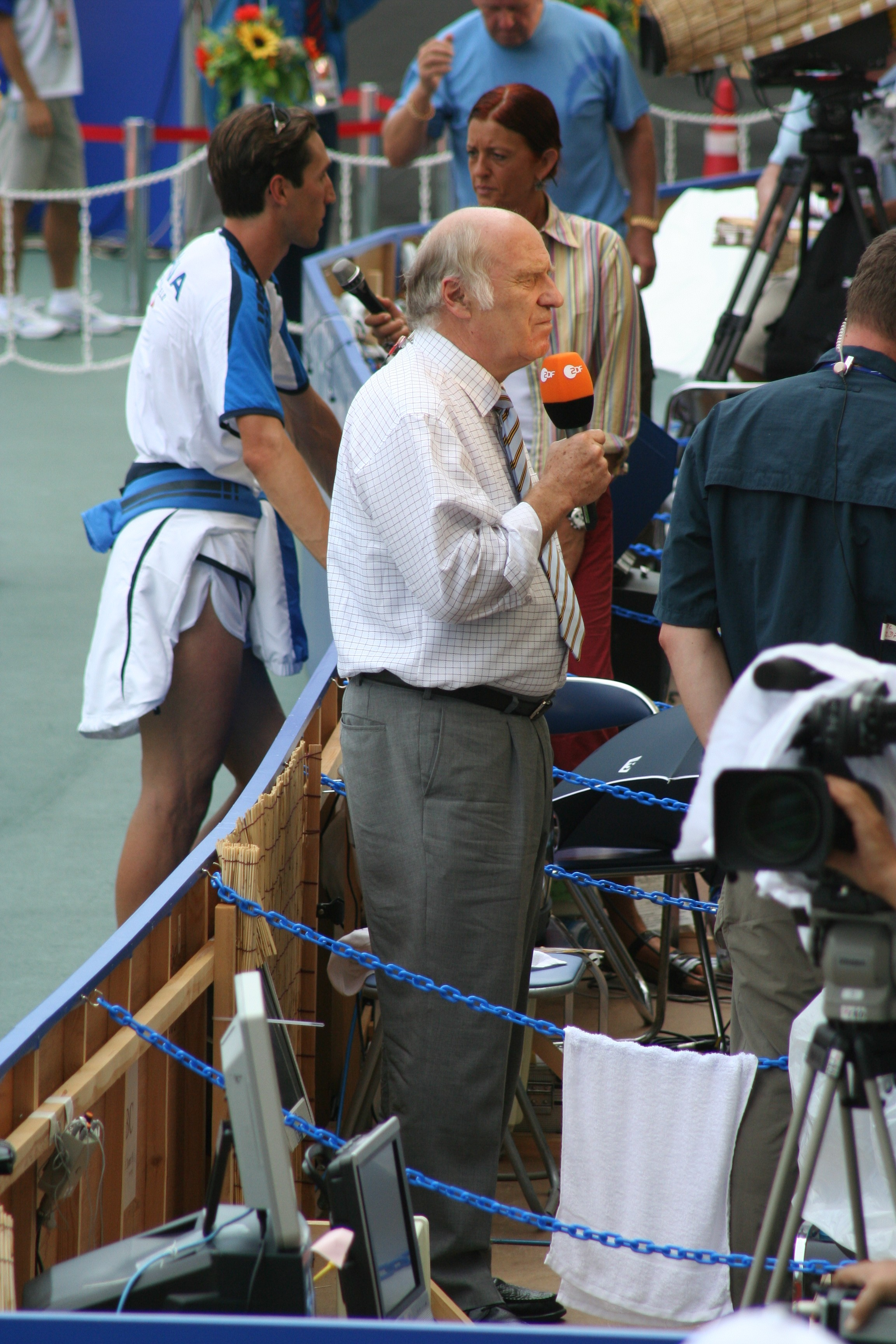 World Athletics Championships 2007 in Osaka - Helmut Digel, former president of the German Athletics Federation